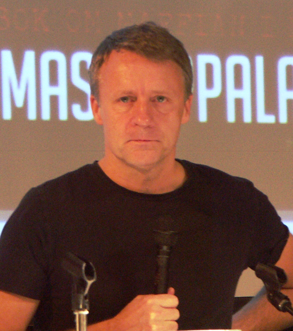 Swedish author and journalist Tomas Lappalainen at the 2008 Gothenburg Book Fair.